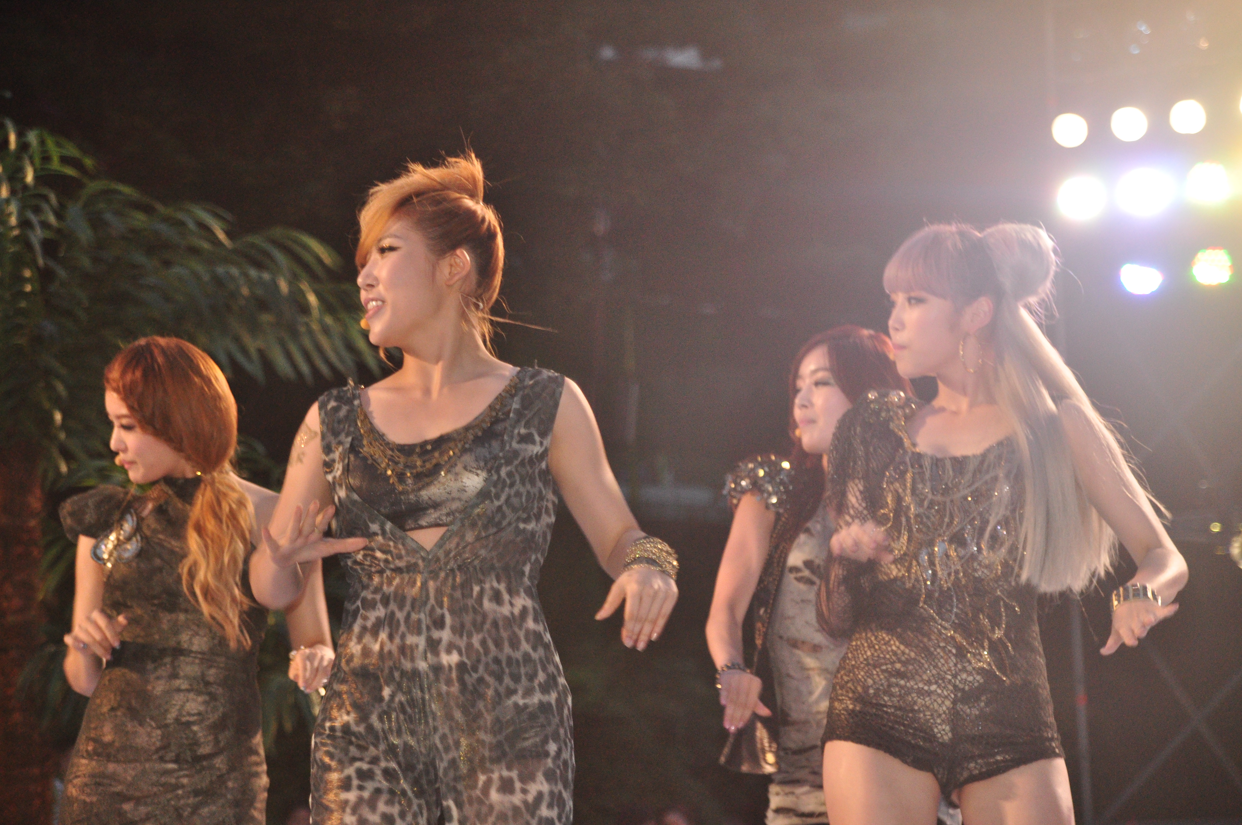 Secret in Mnet 20's Choice Awards, 2010